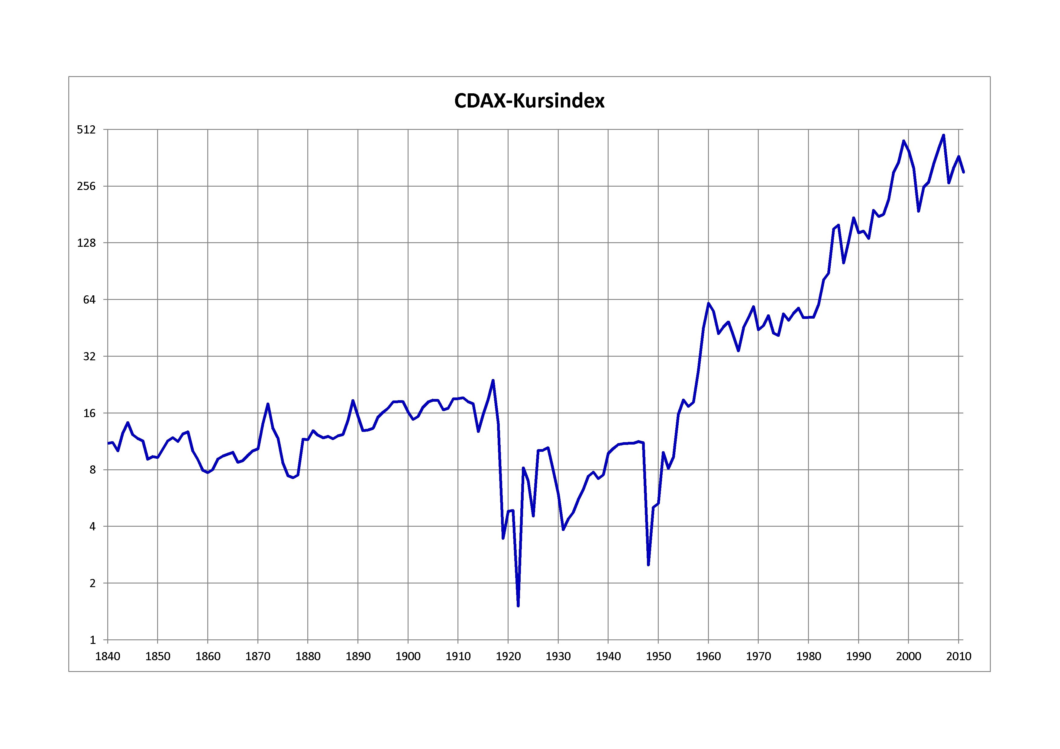 CDAX price index from 1840 to 2011 (yearly closings). The index is measured to 1923 in German gold mark, from 1924 to 1947 in Reichsmark, from 1948 to 1998 in D-Mark and since 1999 in Euro.